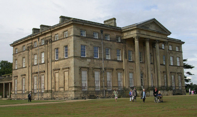 Attingham Park, Atcham, Shropshire, seen from the southwest